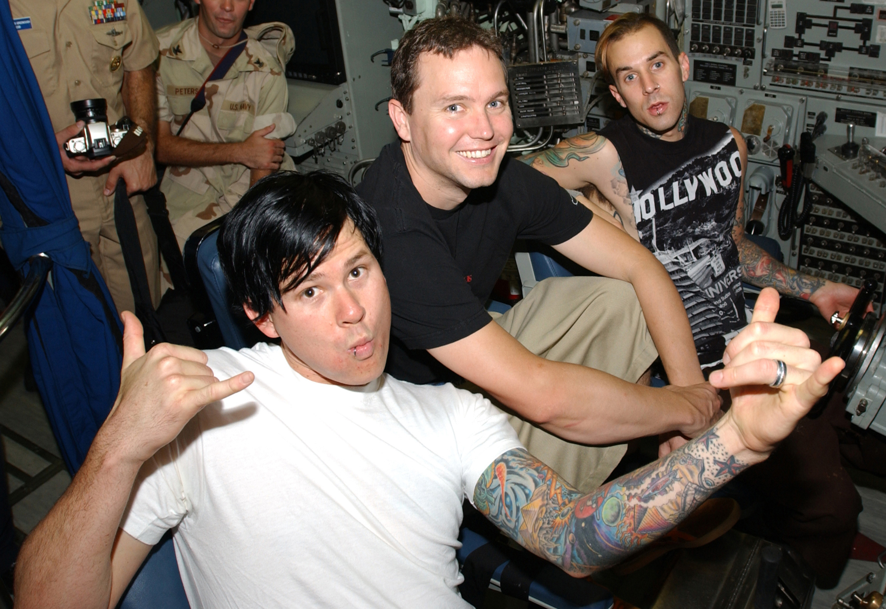 Members of the rock band Blink-182 sit at the ship’s controls pier-side aboard the nuclear-powered attack submarine USS Memphis (SSN 691). Morale Welfare and Recreation, Naval Personnel Command Millington, Tenn. and MWR, NSA Bahrain brought Blink-182 to Bahrain to perform for Sailors, Marines and their families.